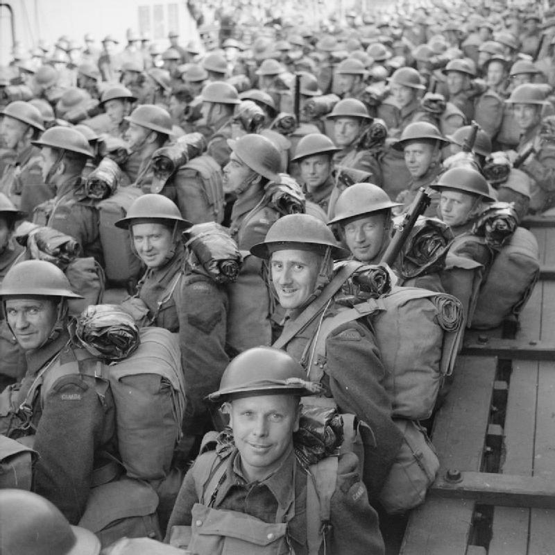 Empire and Dominion Forces in the United Kingdom 1939-45 Troops of the 3rd Canadian Division are carried ashore on a tender, having disembarked from a troopship at Gourock in Scotland, 30 July 1941.